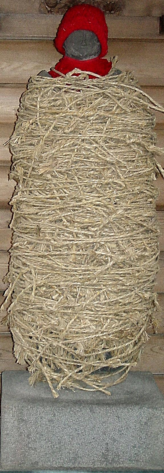 Personal photograph of bound jizo from Narihira-san Tosen Temple (業平山東泉寺南蔵院), Katsushika, Tokyo. the "Bound Jizo" discussed in the Case of the Bound Jizo of Ōoka Tadasuke, a wise and famous judge in Edo